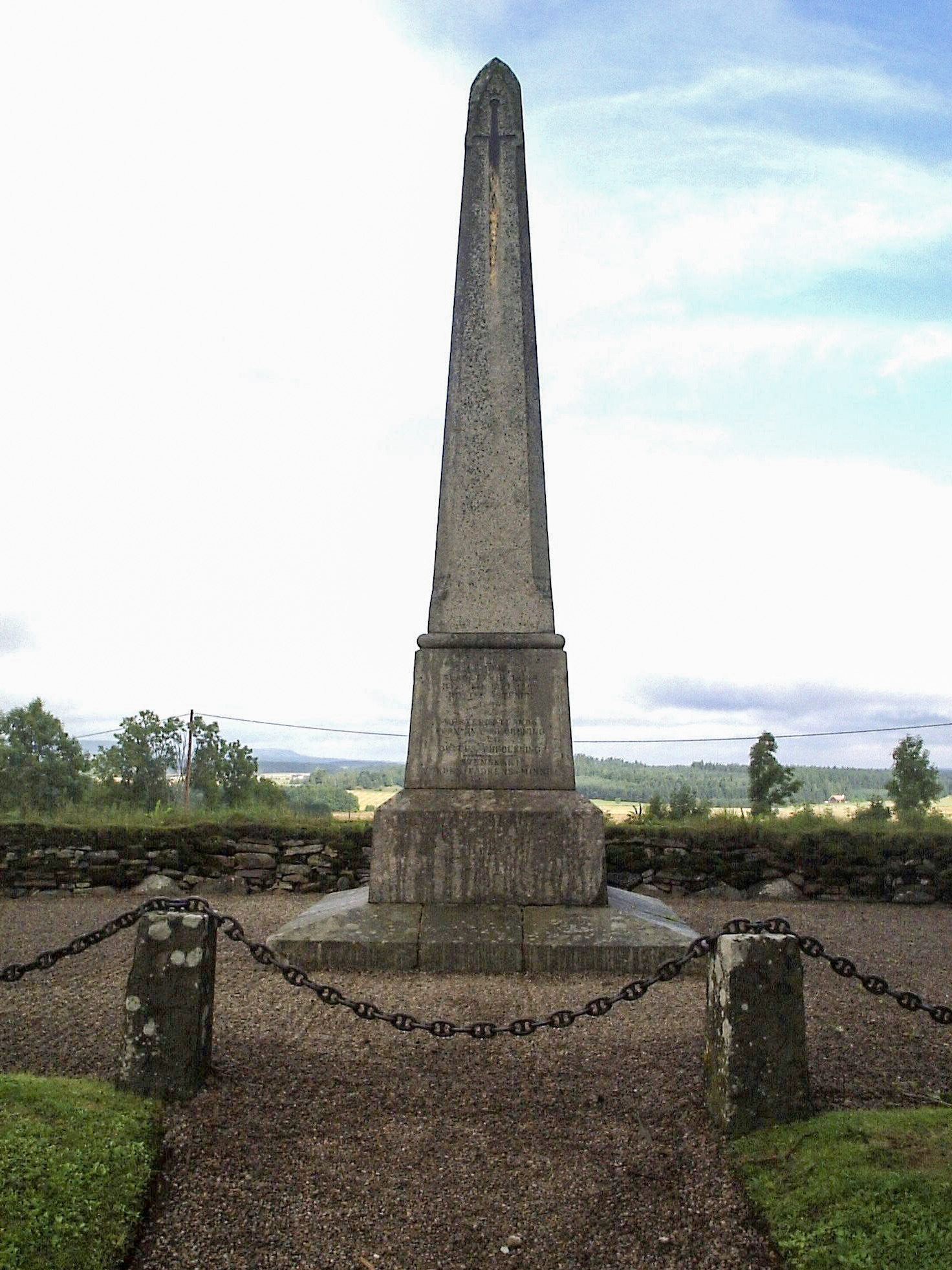 Photo by Harri Blomberg.